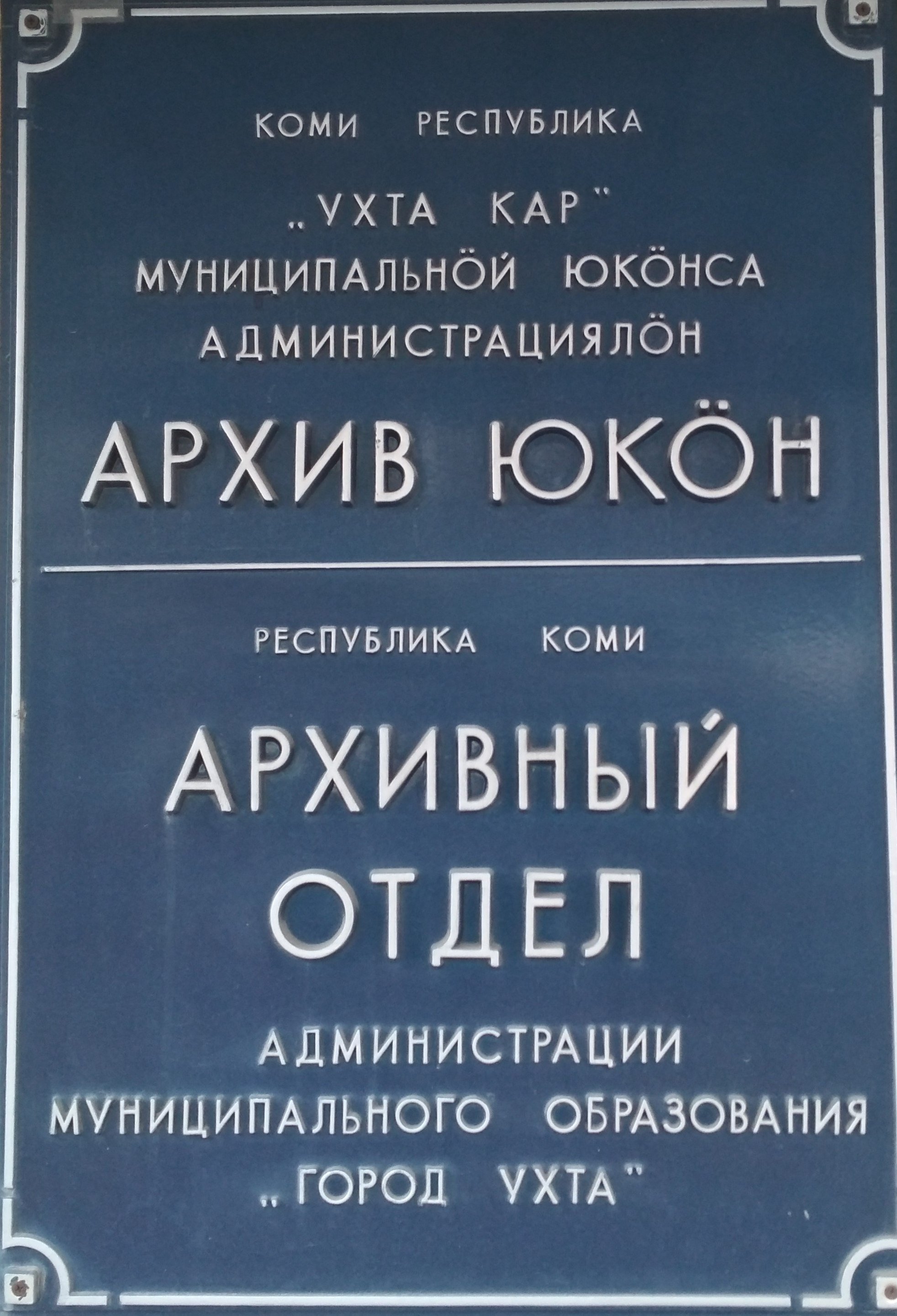 Sample inscription in the Komi language (the upper part of the plate). The picture was taken in Ukhta, Komi Republic.